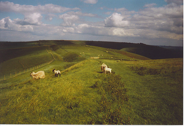 The Wansdyke on Tan Hill. Looking east along the Wansdyke towards Milk Hill, this section has the path following the higher rampart along the southern side of the deep ditch. The ditch here is some 30 feet deep and was intended to stop Saxon invasion from the north in the 6-7th Century.